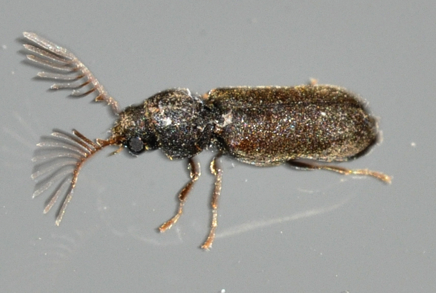 Ptilinus pectinicornis (Linnæus, 1758). Germany: Niedersachsen, Harz mountains, Großer Knollen near Herzberg am Harz, 680 m